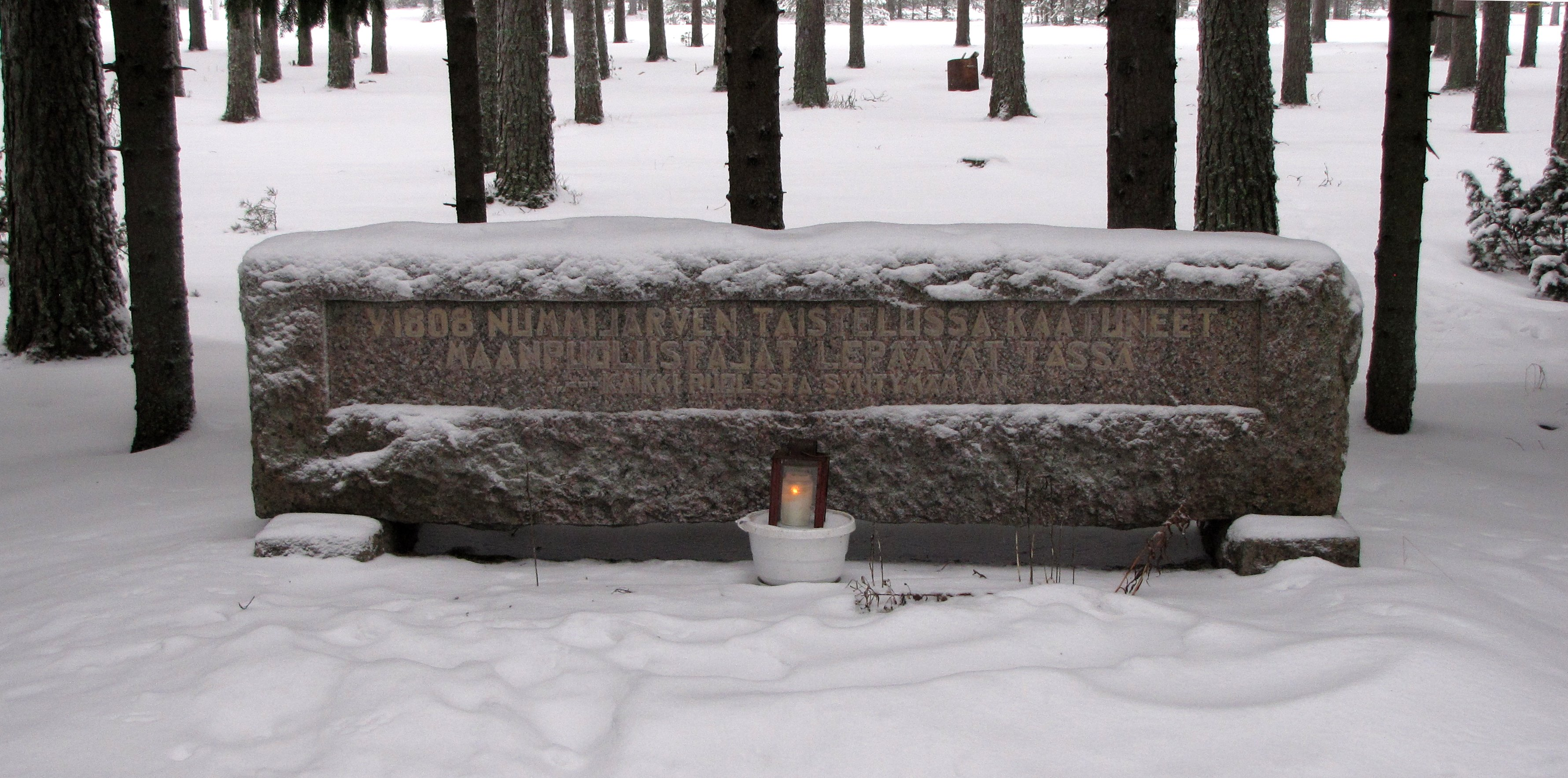 Memorial of Battle of Nummijärvi in Kauhajoki, Finland. The battle was part of Finnish War (1808–1809).